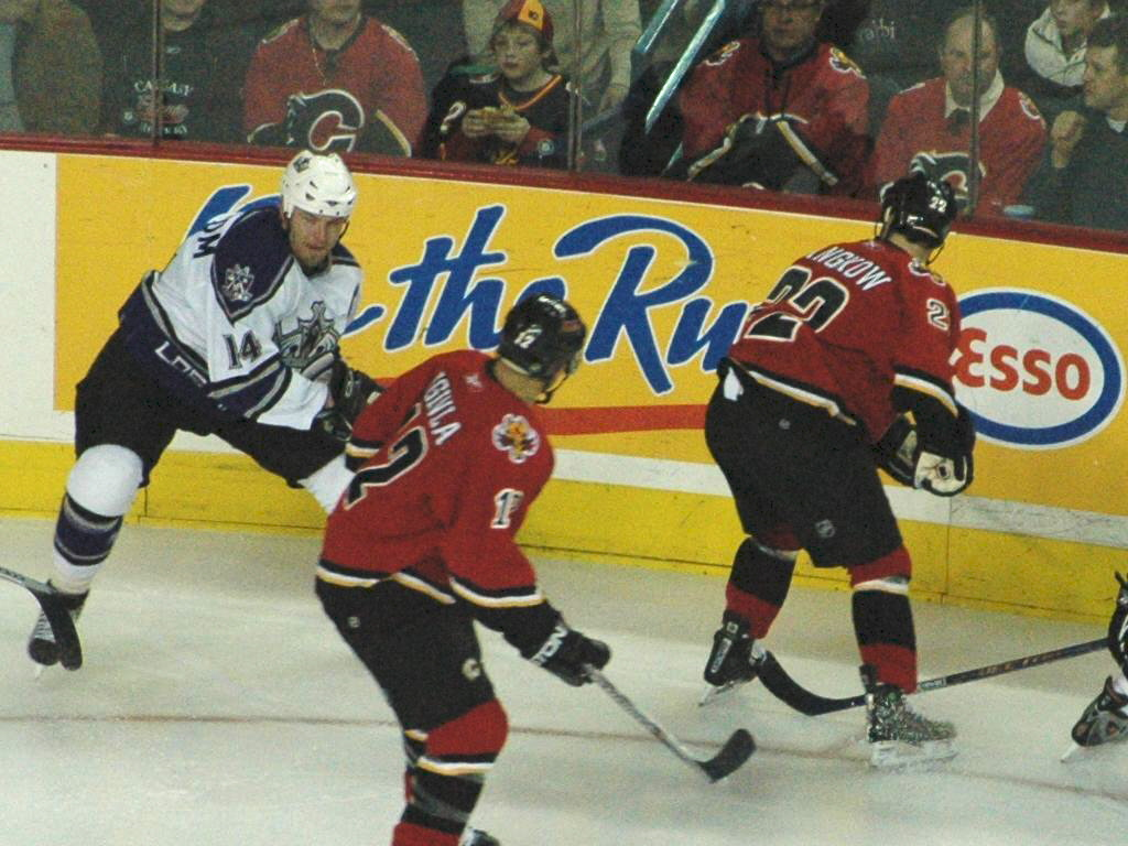 Mattias Norstrom, Jarome Iginla, and Daymond Langkow, December 21, 2005